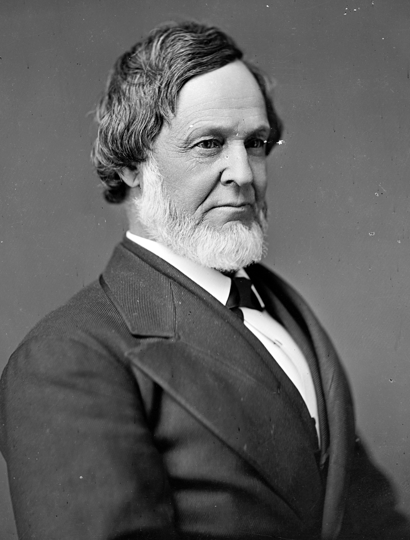 John Morgan Bright, US Representative from Tennessee